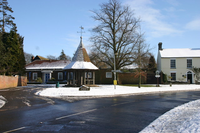 Balsham Bandstand The Bandstand, also known as the Prine's Memorial, with the old school in the background.